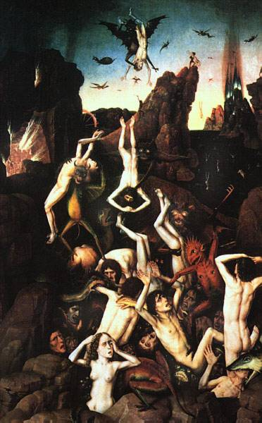 The Fall of the Damned